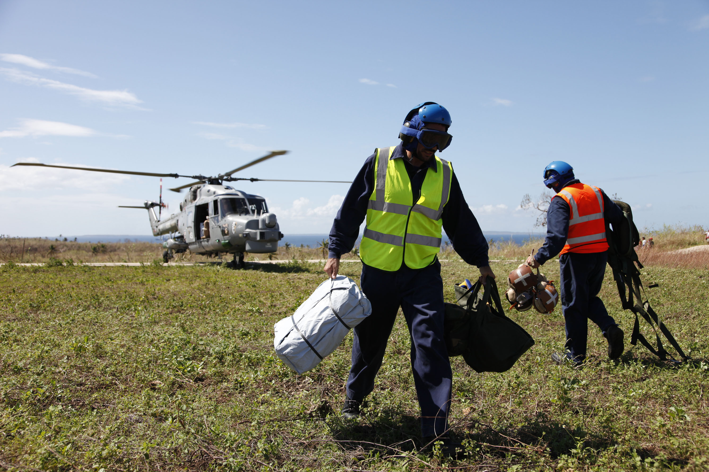 The helicopter helps to ferry in food, shelter and medical help from HMS Daring, which was stationed just offshore. Get the latest updates on how the UK is helping respond to Typhoon Haiyan: Picture: Simon Davis/DFID